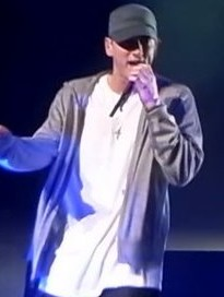 Eminem performing at the DJ hero party with D12 on June 1, 2009